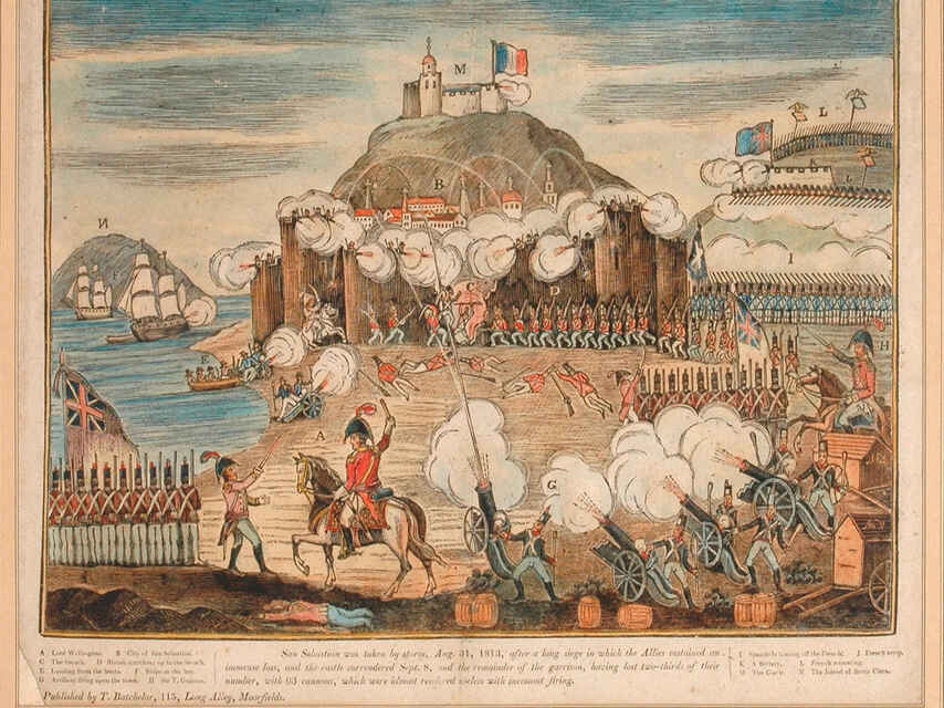 The-Siege-of-San-Sebastian (1813) painting. It is in San Telmo Museum in Donostia San Sebastian.